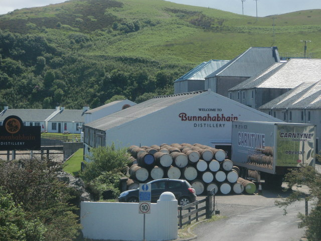 Bunnahabhain Distillery The entrance into Islay's most northerly distillery.